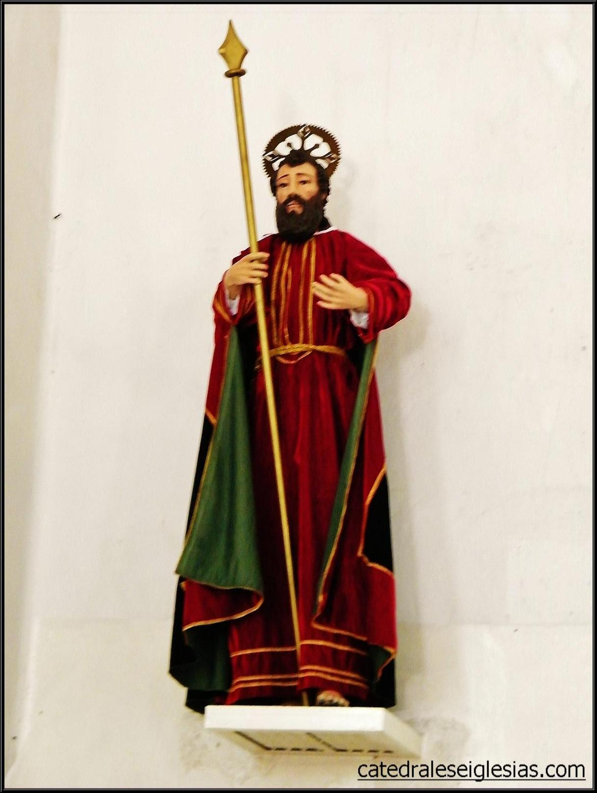 By Catedrales e Iglesias Album 2602